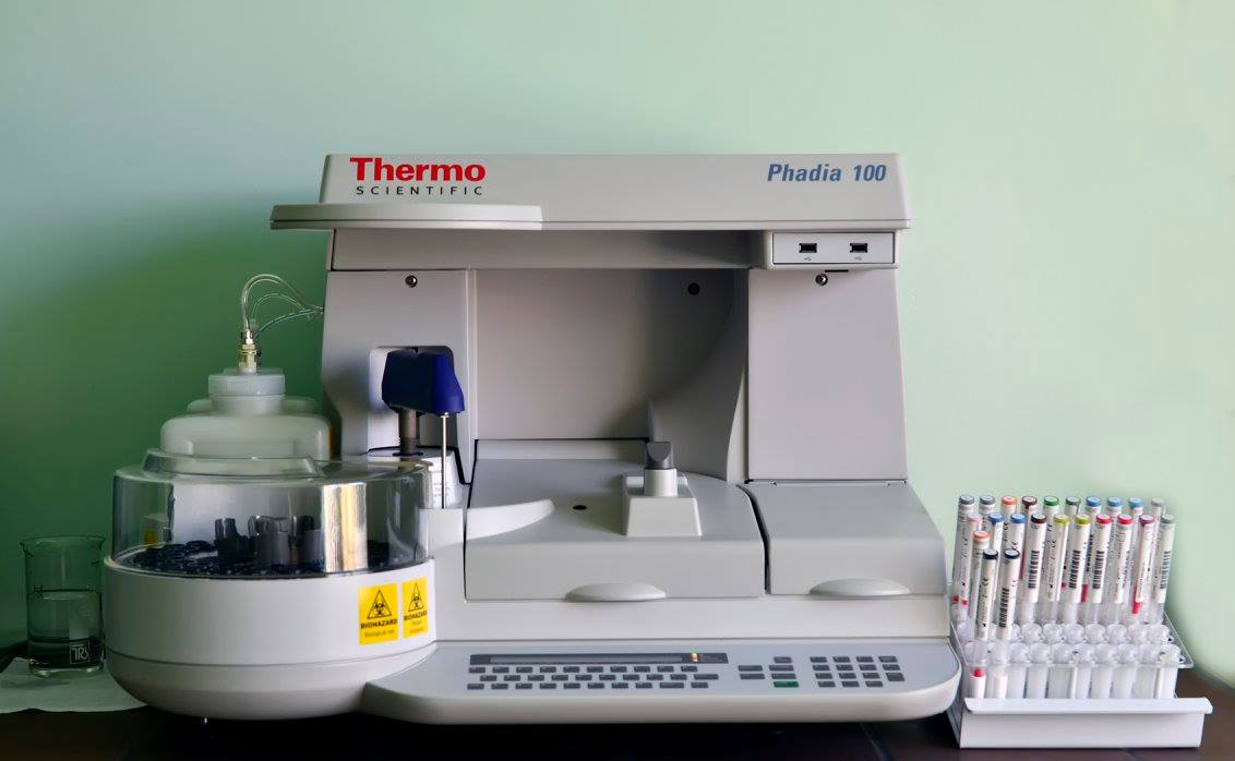 Specific IgE detecting machine.